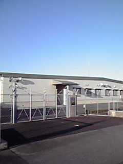 This is a building in 68 Kouka,Ago town,Mie prefecture,JAPAN.